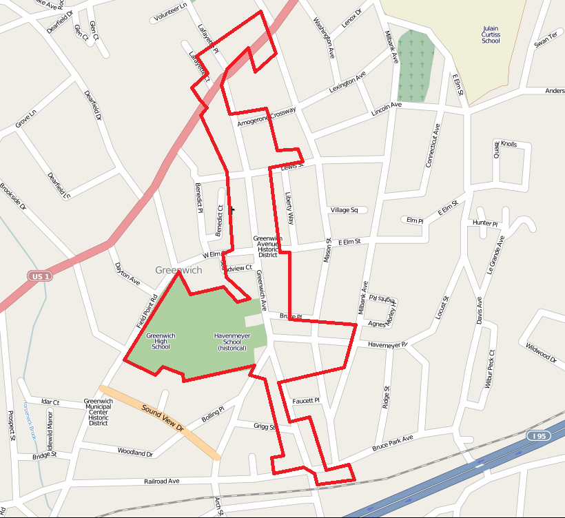 Map of the Greenwich Avenue Historic District — along Greenwich Avenue in Greenwich, Fairfield County, southwestern Connecticut Credits Base map from OpenStreetMap. Boundary approximated from National Register of Historic Places nomination form.